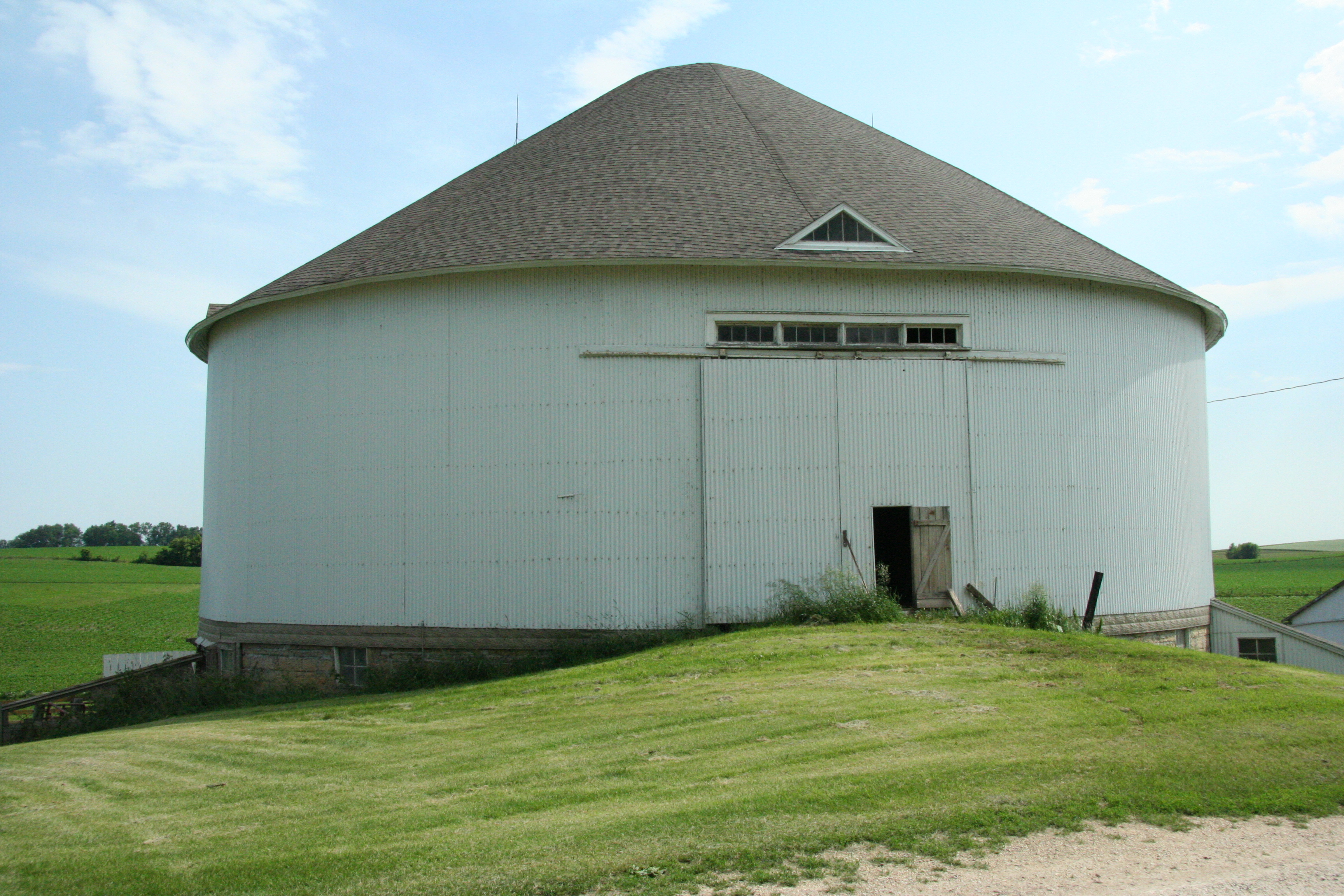 View from the north of a white "true circular" round barn on County Highway 32 north of State Highway 30 in Winona County, Minnesota